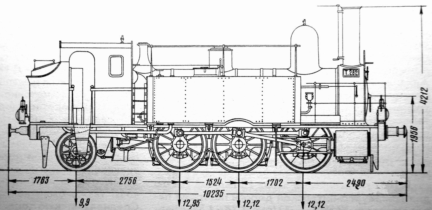 Russian tank loc type 0-6-2 Yer' series